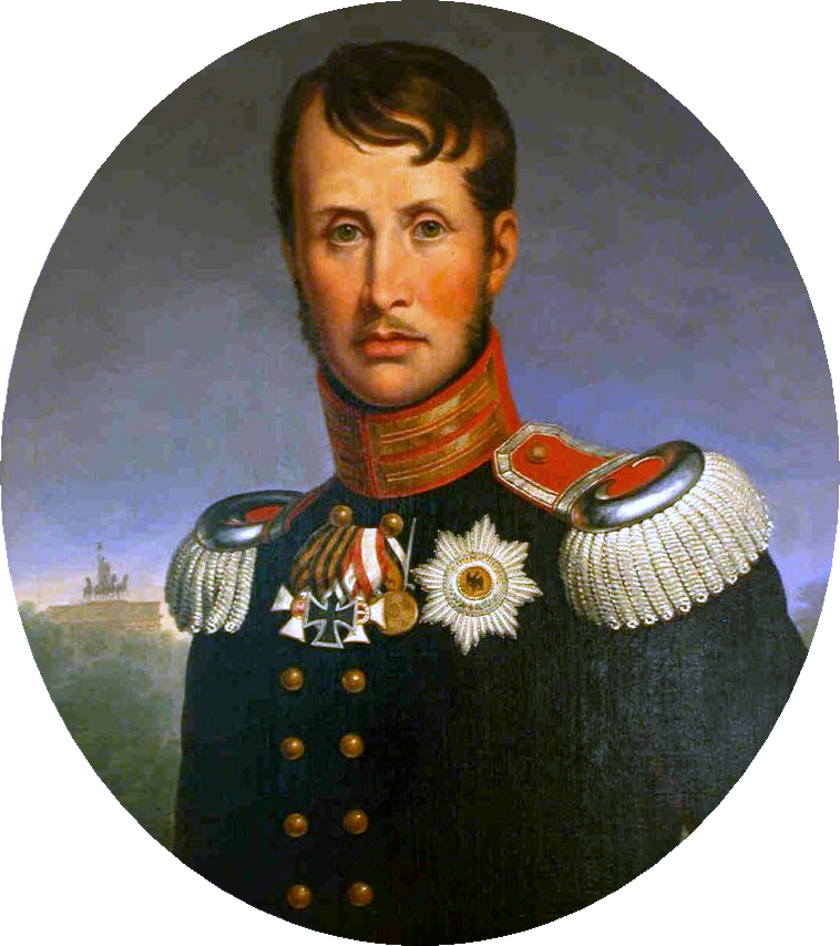 Friedrich Wilhelm III of Prussia (1770-1840)